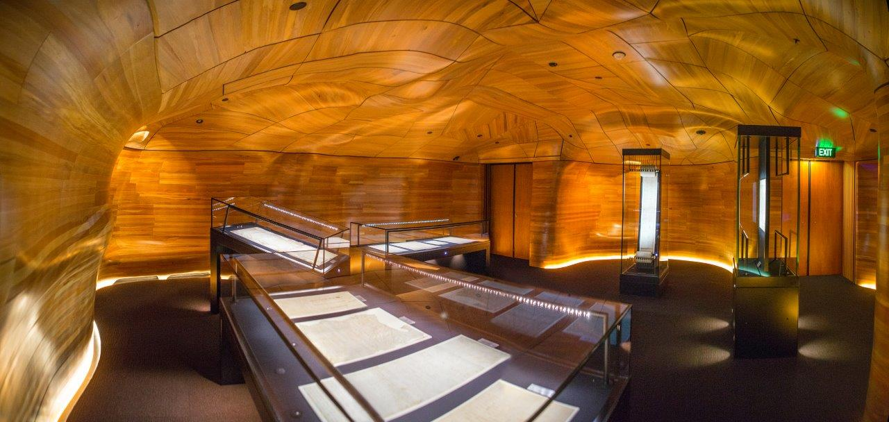 The He Tohu Document Room houses New Zealand's three most iconic constitutional documents: 1835 He Whakaputanga o te Rangatiratanga o Nu Tireni - Declaration of Independence of the United Tribes of New Zealand; 1840 Te Tiriti o Waitangi - Treaty of Waitangi; and 1893 Women’s Suffrage Petition – Te Petihana Whakamana Pōti Wahine. The documents were moved from the Constitution Room at National Archives to the He Tohu Document Room at the National Library in April 2017. The He Tohu Document Room was opened to the public on 19 May 2017.